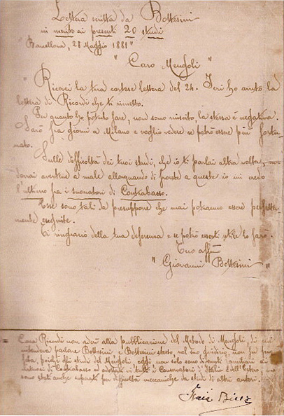 The original letter of Giovanni Bottesini (1821–1889) to Annibale Mengoli (1851–1895)